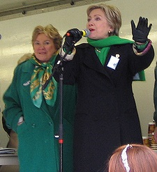 Hillary Clinton and Catherine Baker Knoll in the Pittsburgh Saint Patrick's Day parade on March 15, 2008